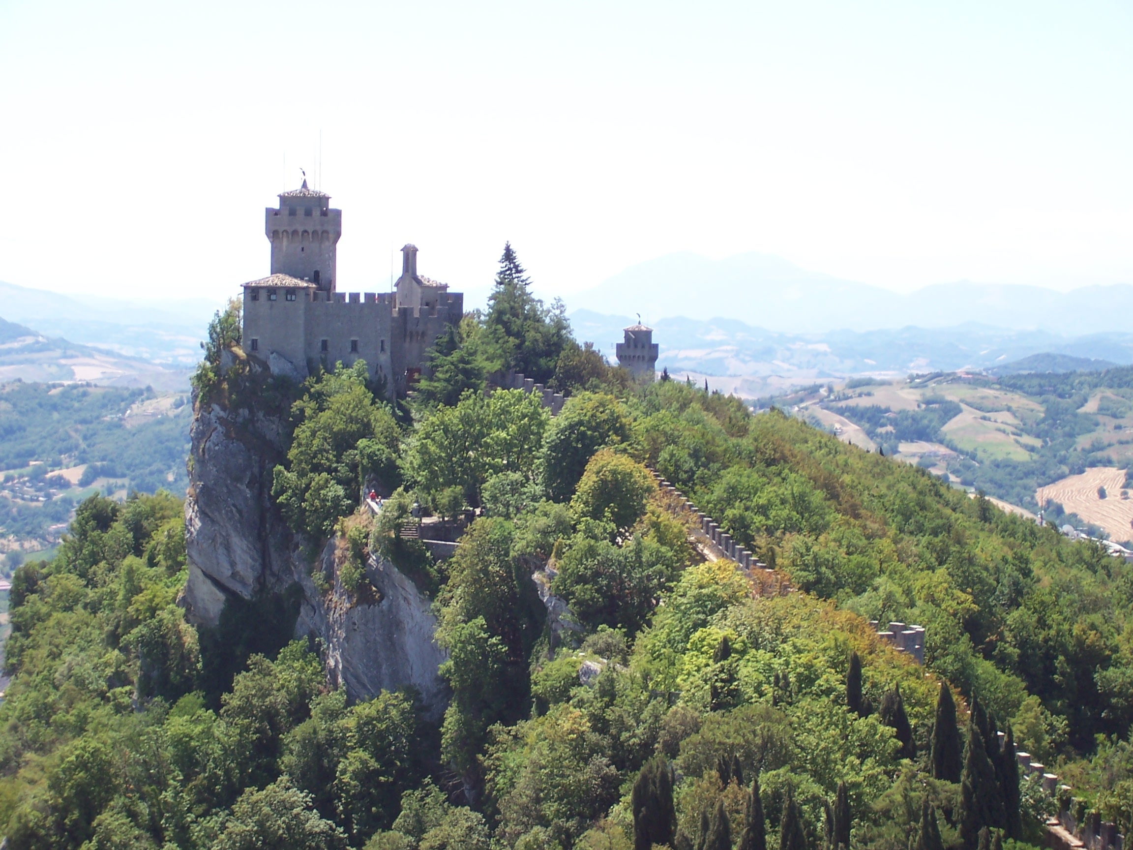 Monte Titano (San Marino)